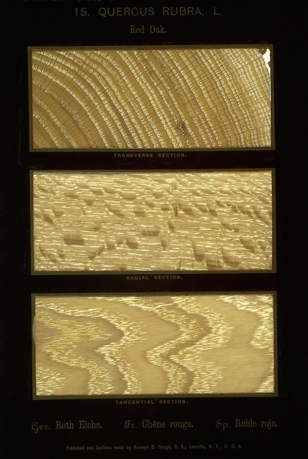 Quercus rubra – Red Oak From Romeyn Beck Hough's fourteen-volume work The American Woods, a collection of over 1000 paper-thin wood samples representing more than 350 varieties of North American tree.